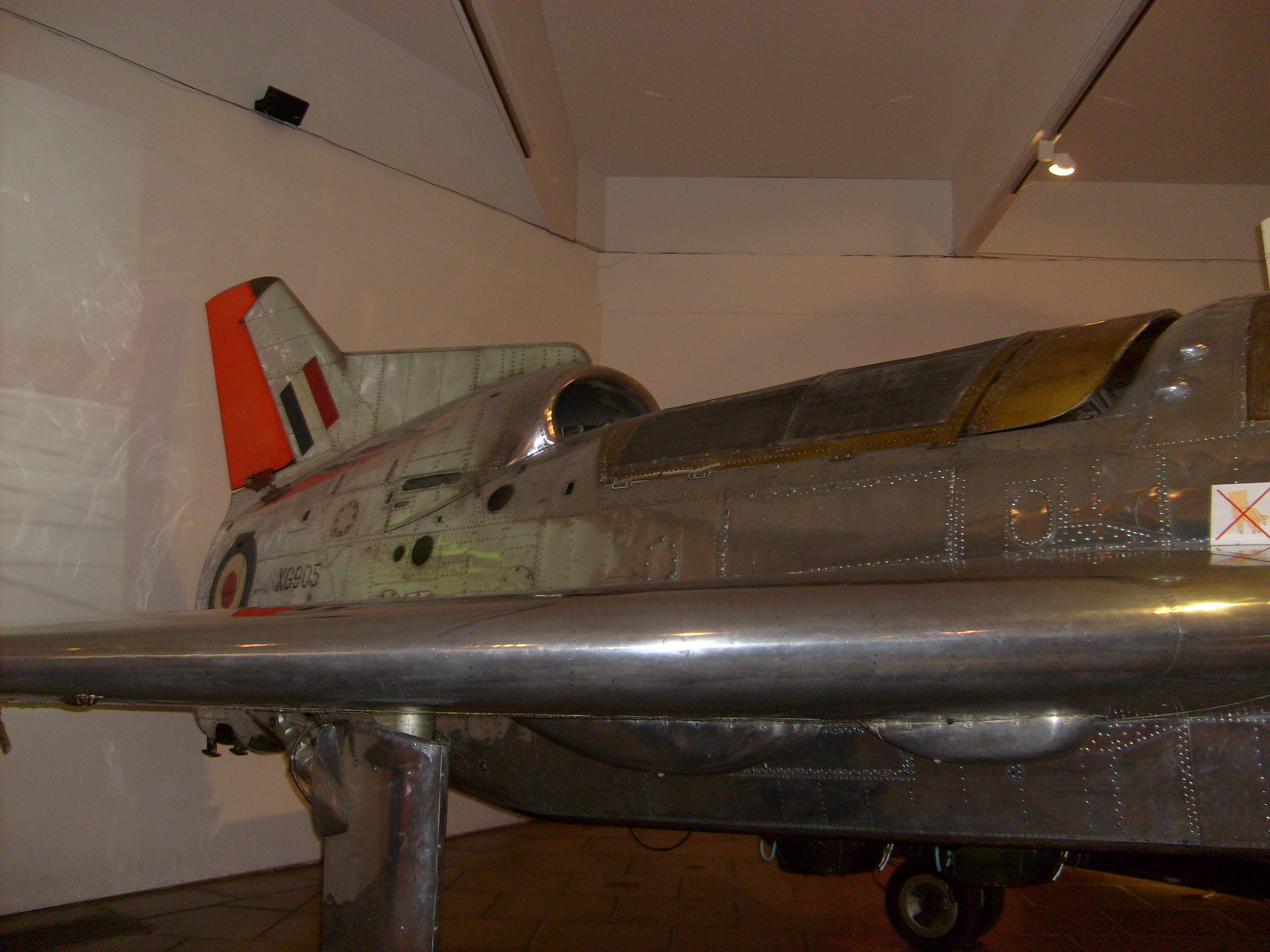 Picture of a Shorts VTOL taken at the Ulster folk and transport museum